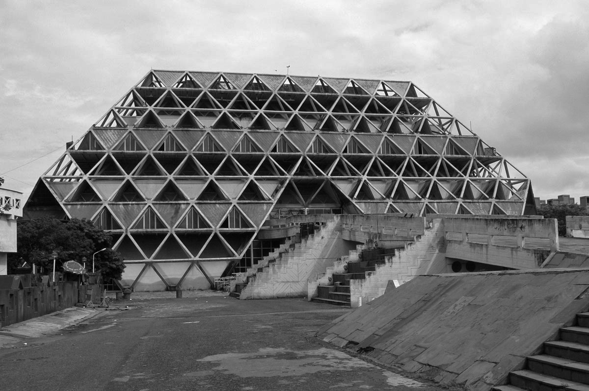 Hall of Nations, Delhi (1971-72), Architect: Raj Rewal + Kuldip Singh; Structure: Mahendra Raj.